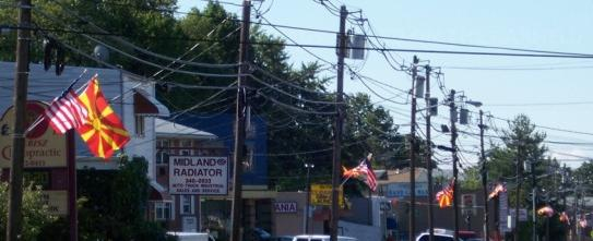 Macedonian and American flags in Grafield, NJ